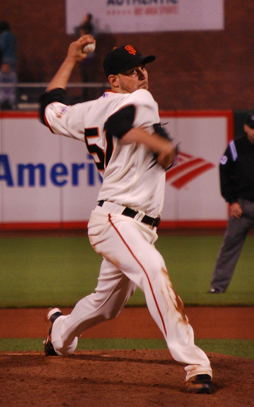 Jonathan Sánchez